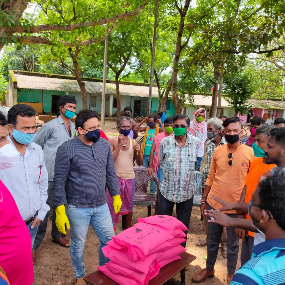 Kunal Sarangi during a Covid19 pandemic outreach program with the rural folks at Potka, Jharkhand in June 2020.